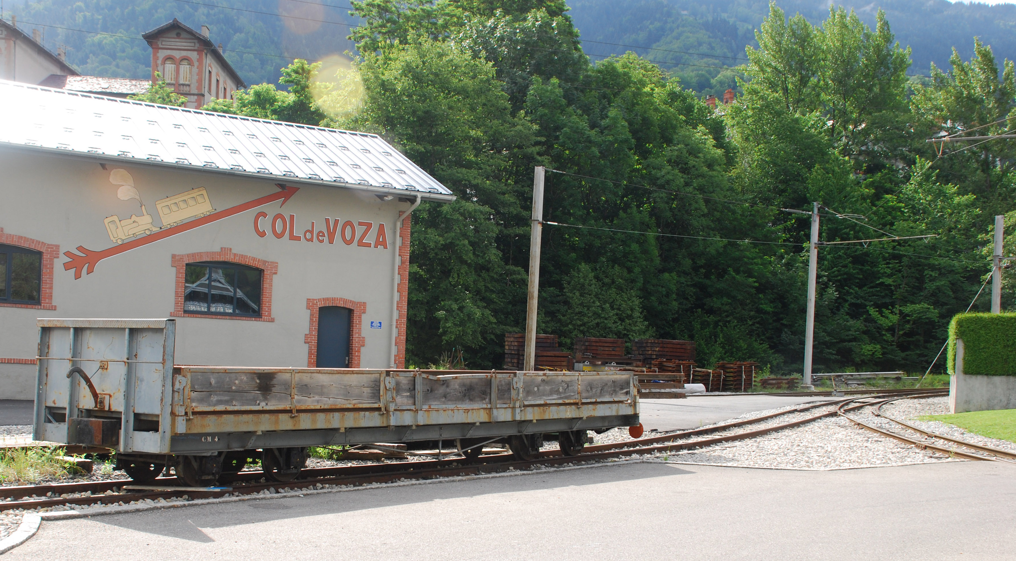 TMB: wagon at Le Fayet station.